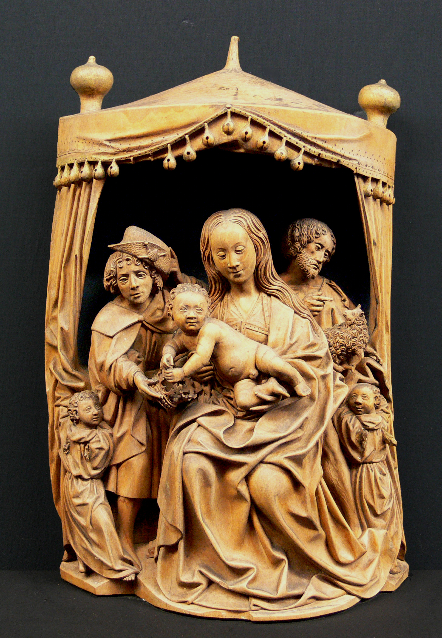 Madonna between St. Judoc and John the Baptist, Holland, c. 1490